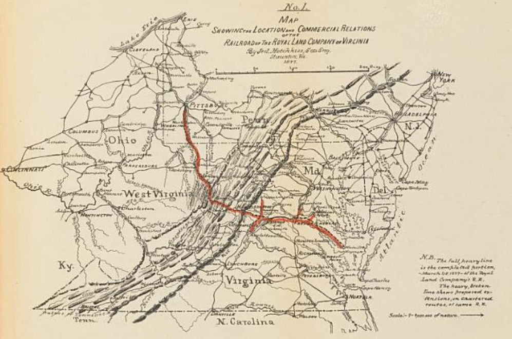 Map showing the location and commercial relations of the railroad of the Royal Land Company of Virginia